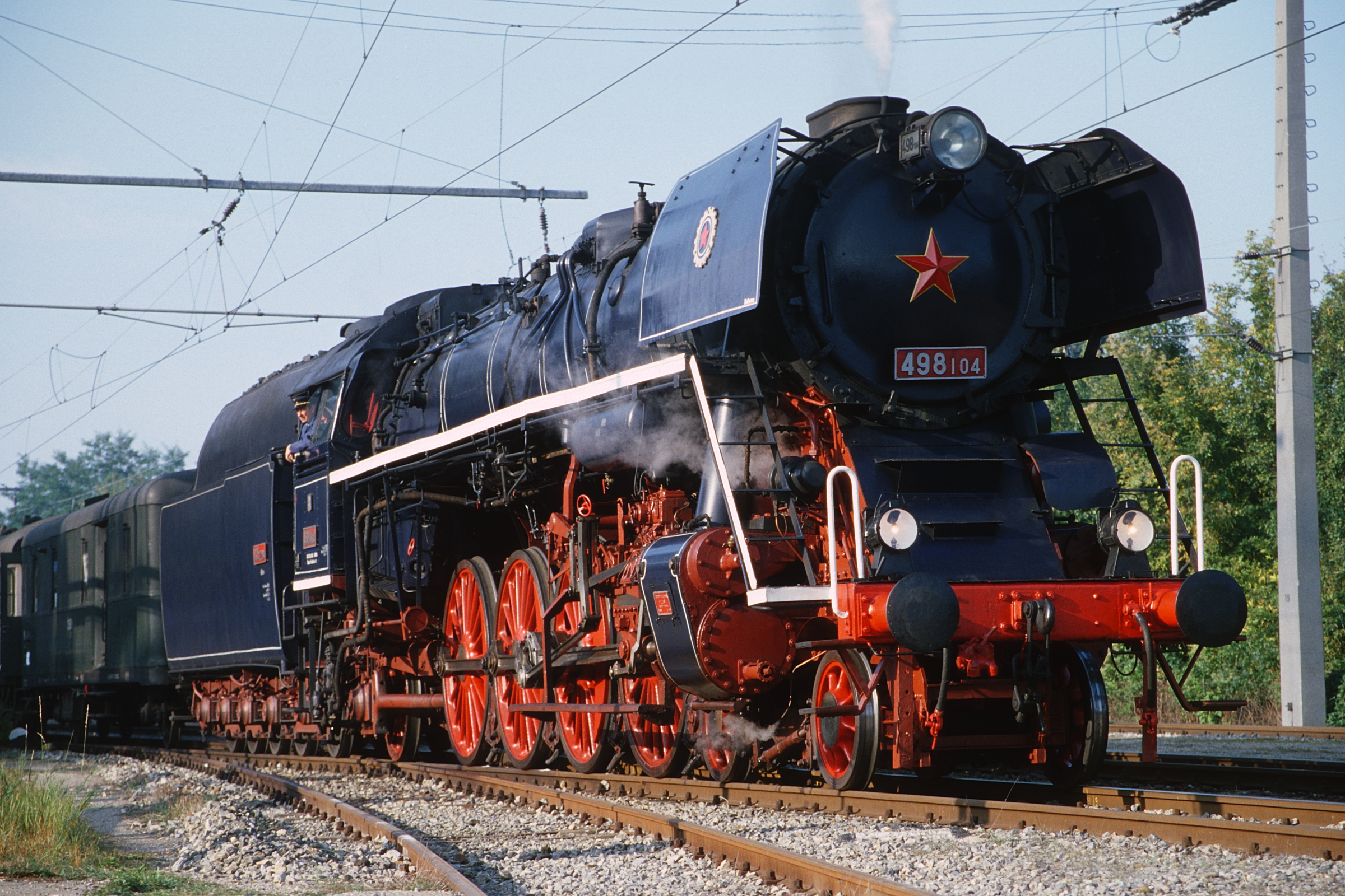 ZSR museum locomotive 498.104 on ÖBB tracks in Lower Austria